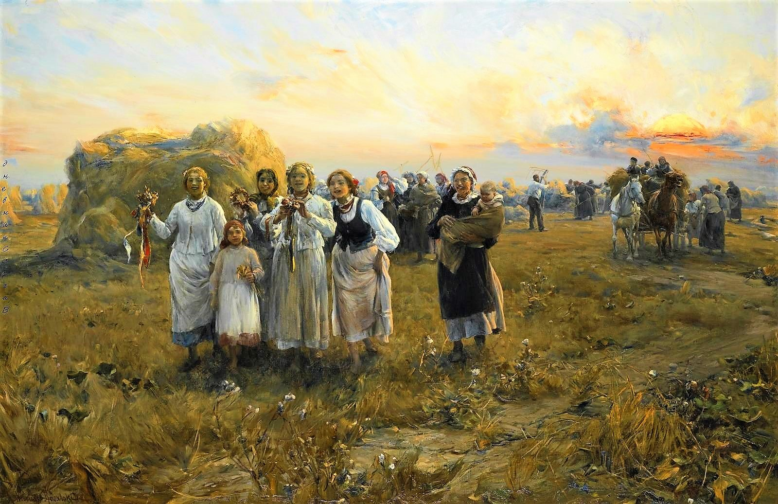 Alfred Wierusz-Kowalski, Dozhinki.